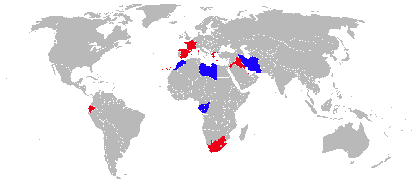 Current (blue) and former (red) operators of the Dassault Mirage F1 aircraft, in two colours, without legend.